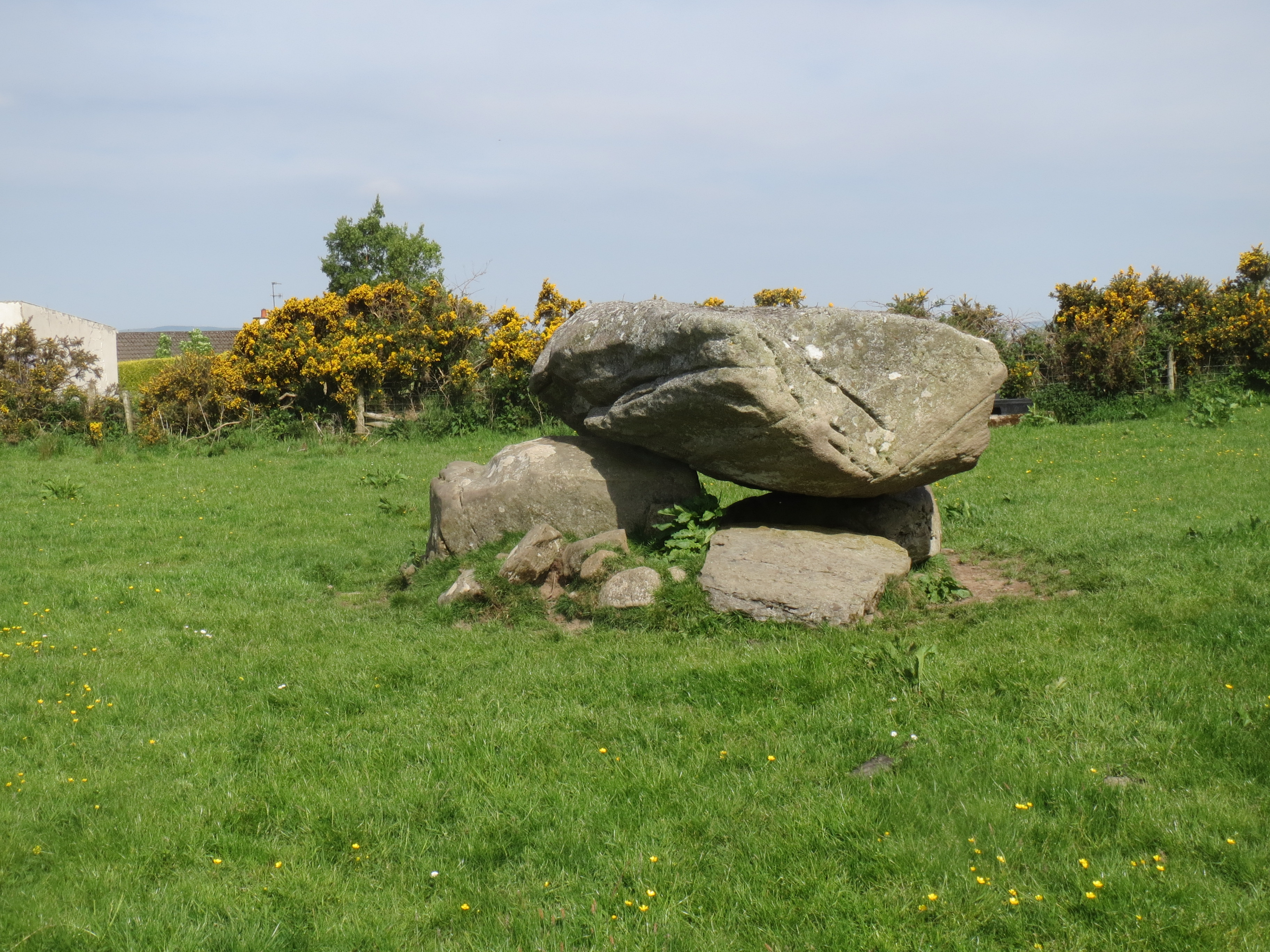 Killynaght Portal Tomb